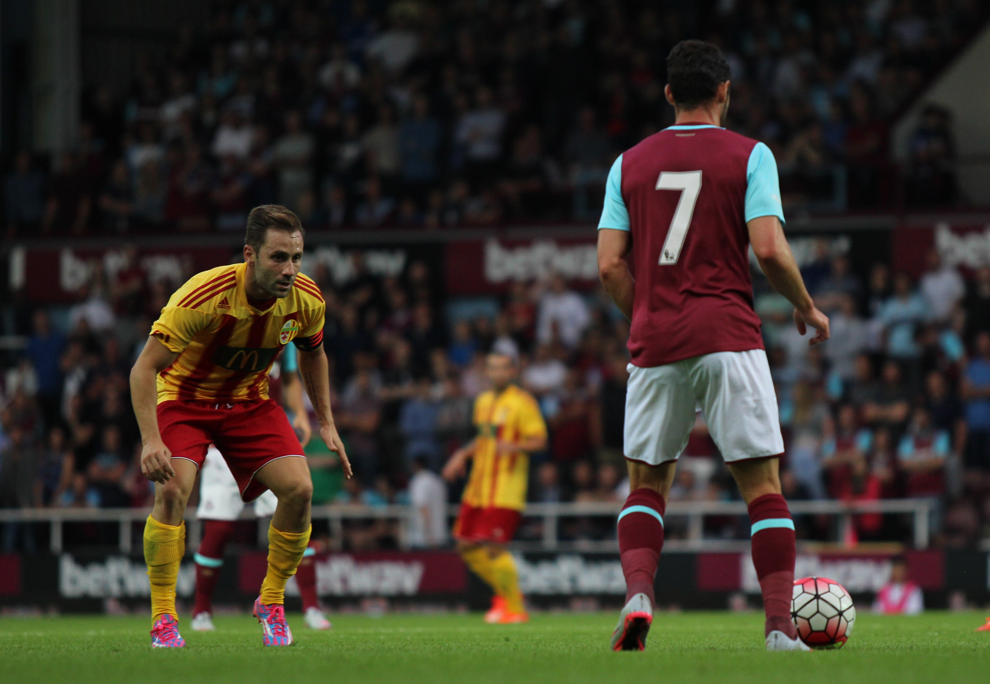 Paul Fenech of Birkirkara closes down Matt Jarvis of West Ham.